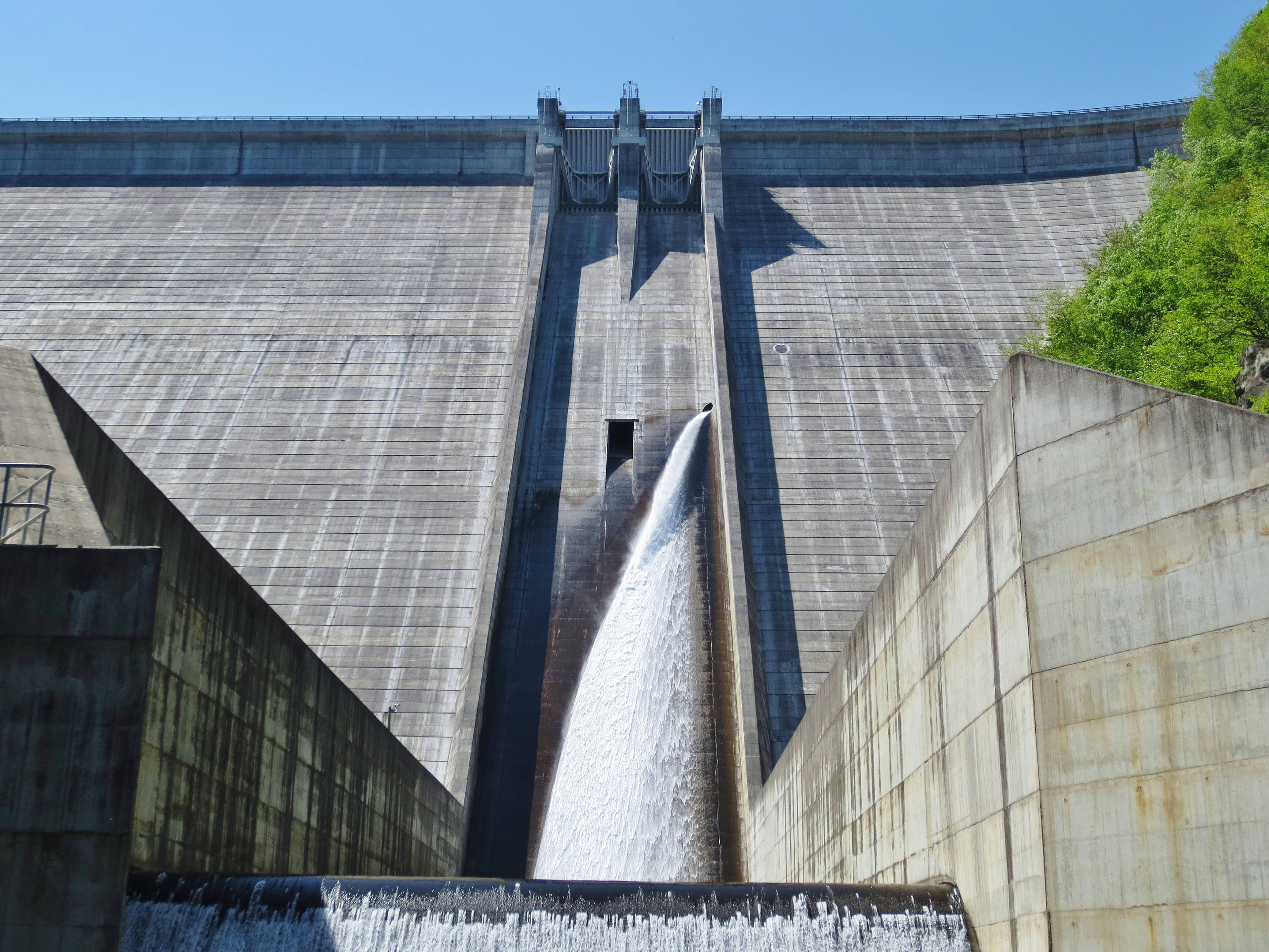 Ueno Dam.